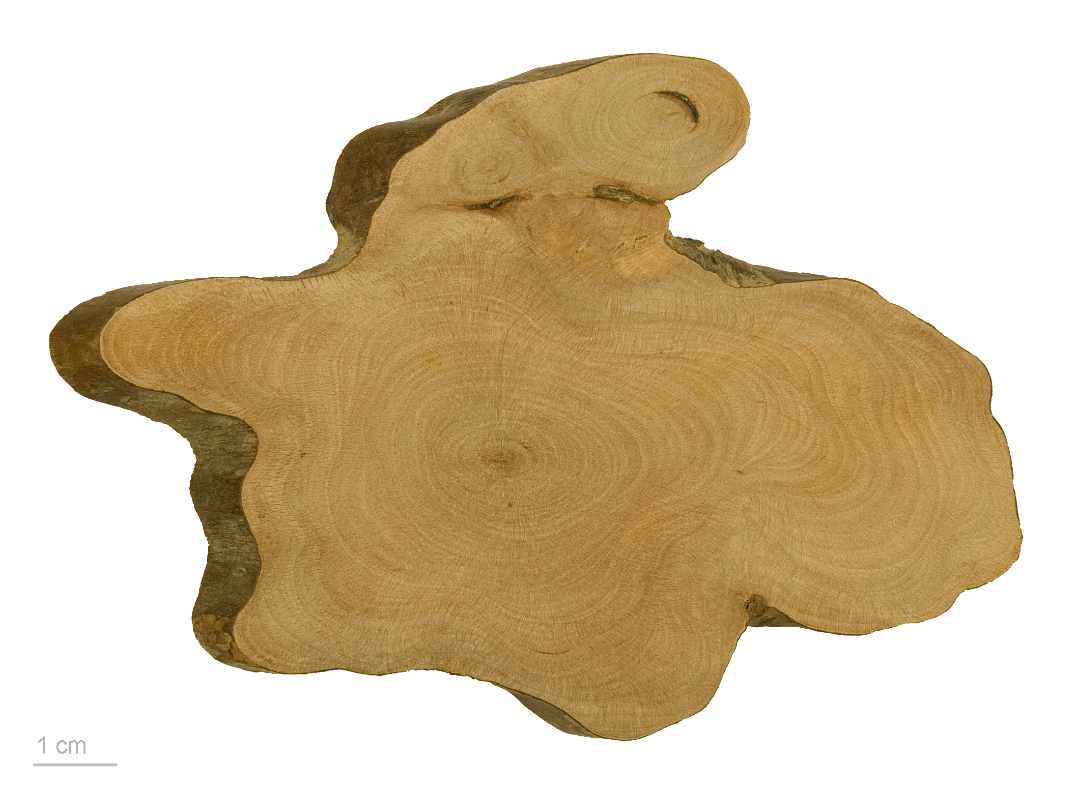 Chinese Azalea , wood